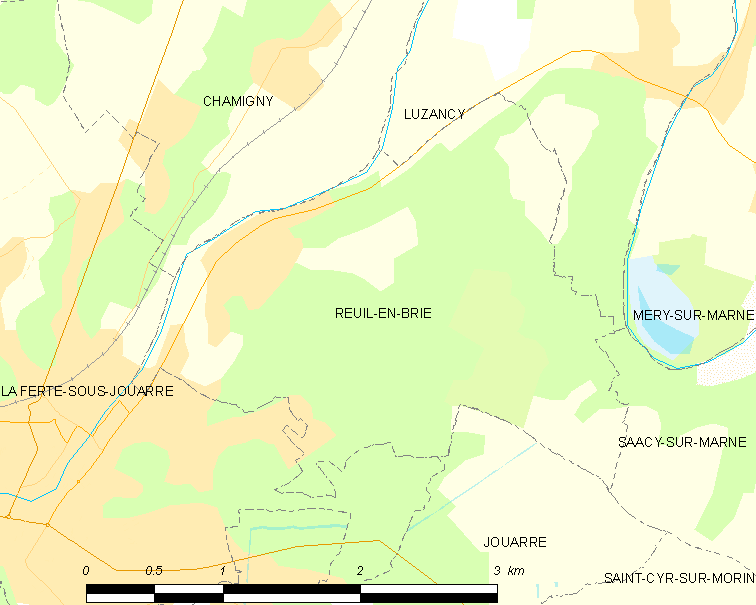 Map of French municipality Reuil-en-Brie